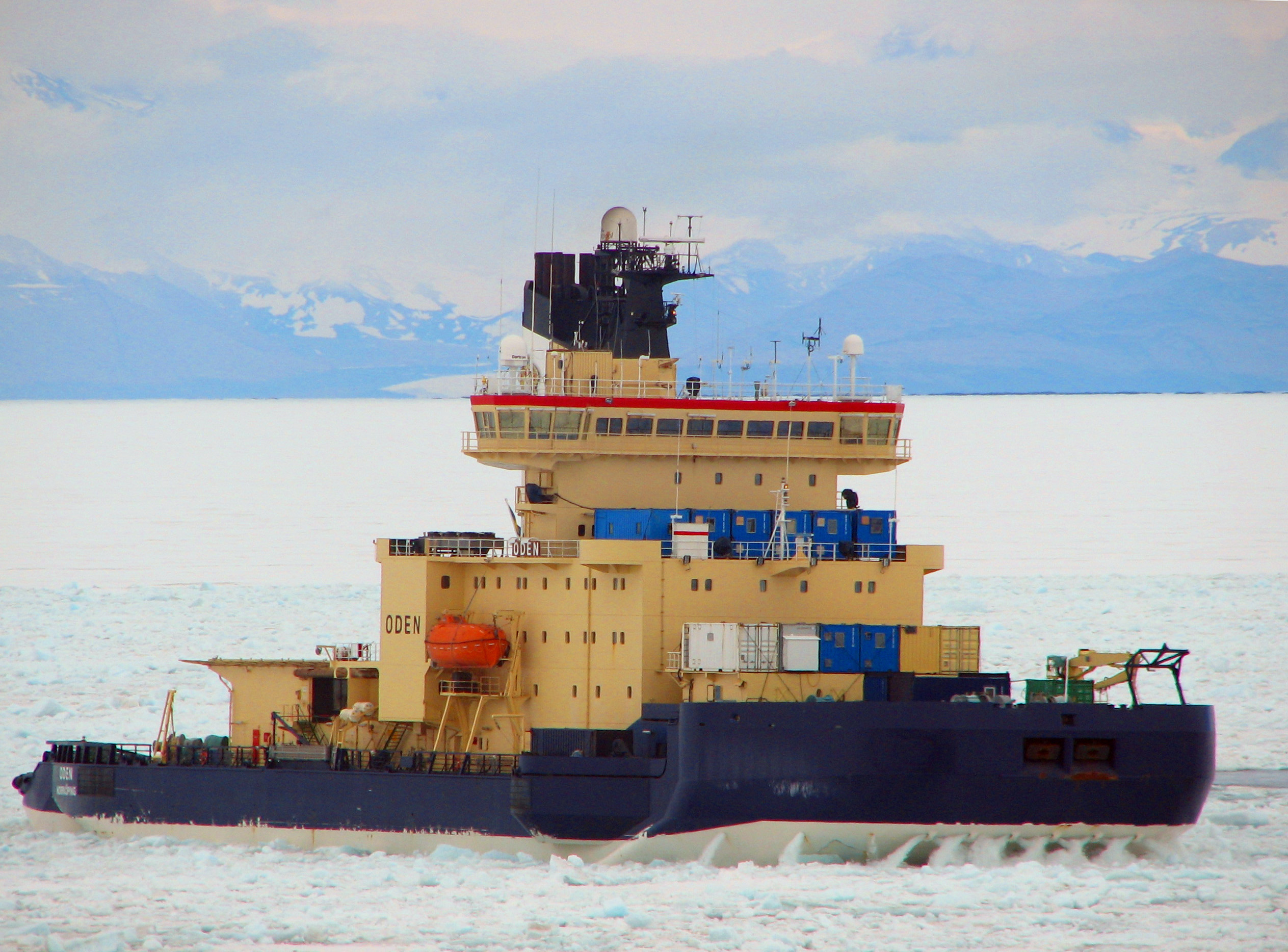 The Swedish icebreaker Oden carves a path through the ice off the shores of McMurdo Sound in Antarctica.